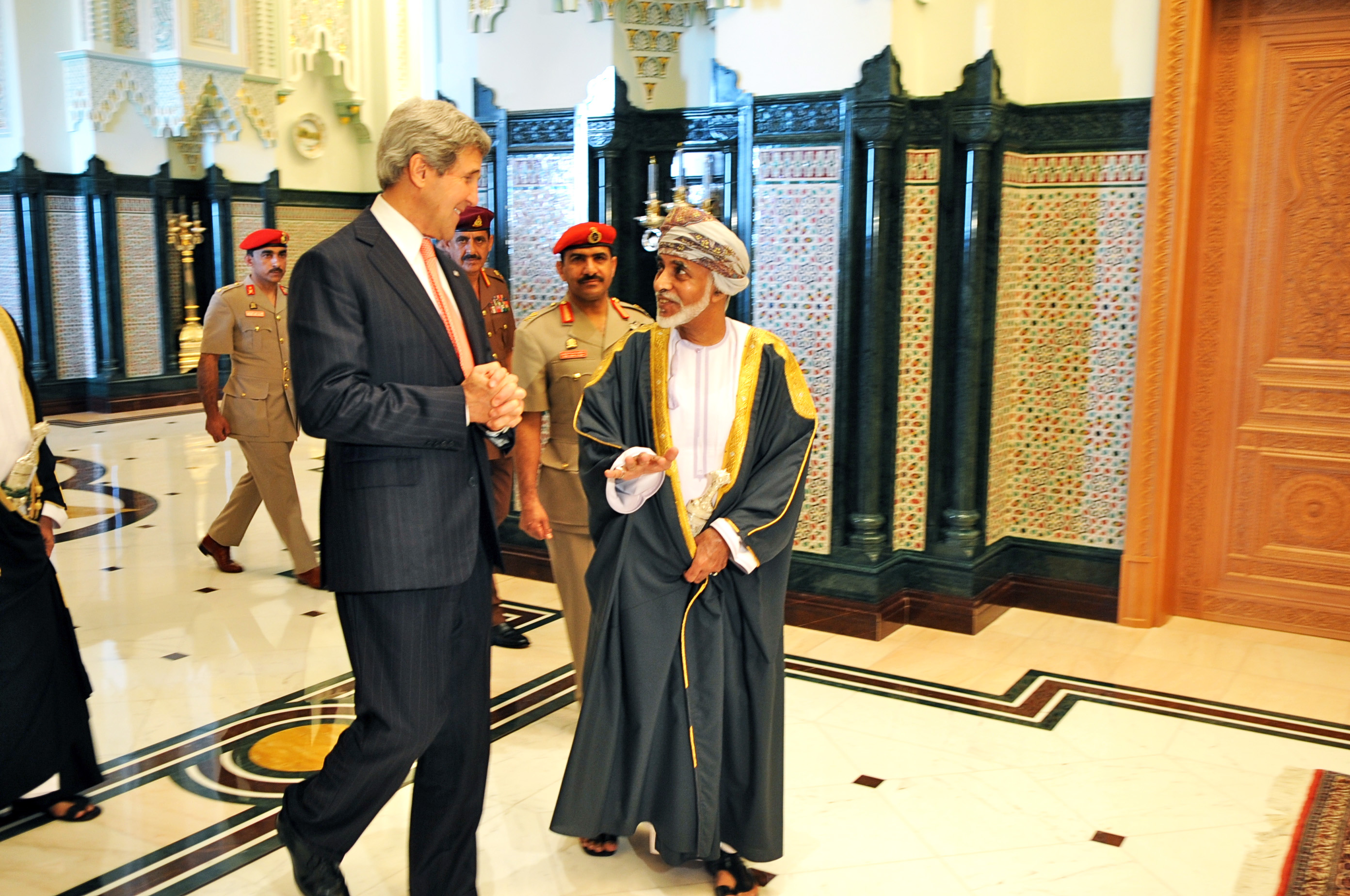 U.S. Secretary of State John Kerry meets with Sultan of Oman Qaboos bin Said Al Said in Muscat, Oman, on May 21, 2013. [State Department photo/ Public Domain]